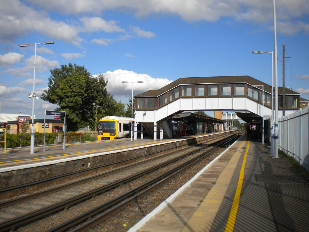 Sittingbourne railway station. Seen from near the west end of platform 1. A Southeastern class 466 electric unit is standing at platform 3 (left), forming a service to Sheerness.